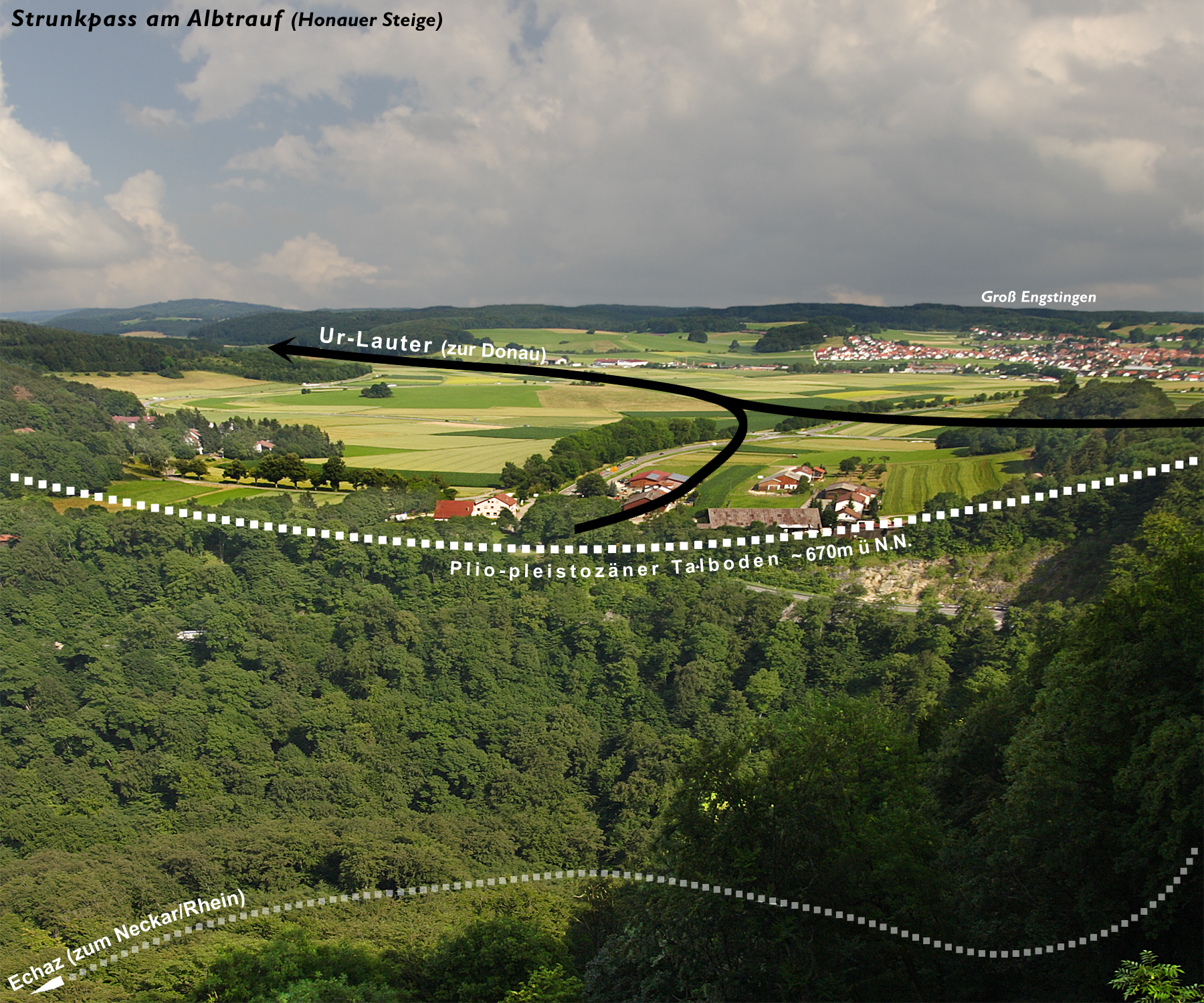 wind gap, Middle Swabian Alb. Two rivers are involved: Echaz and Ur-GrosseLauter. A huge Ur-Lauter, which existed since late Upper Miocene, ran through the northern Alb-Foreland, through Reutlingen and across the Alb, merging the Upper Danube (wind gap-Danube 50 km) at Obermarchtal. The Rhine’s stronger headward erosion – and that of the relatively small Echaz alike - finally captured the Ur-Lauter in plio-pleistocene time. Increasing karstification of the Alb diminished the water drainage of the “Grosse Lauter” drastically. It is now a small aboveground river, of which the 7,8 km from the wind gap to the Lauter’s karst spring is a dry valley (photo of the dry valley: Image:Trockental Grosse-Lauter Kohlstettental Schwaebische-Alb.jpg).